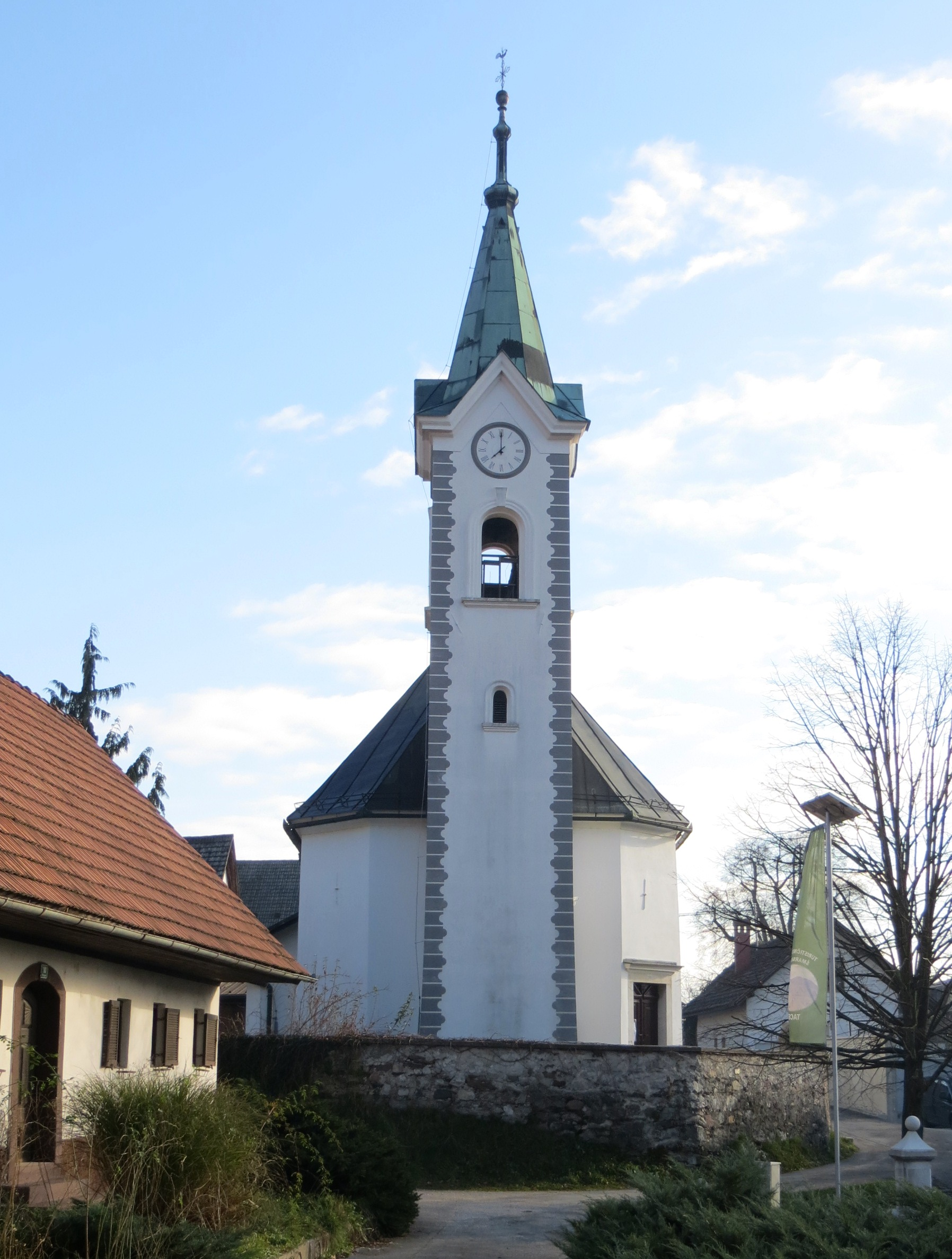 Saint George's Church in Tacen, City Municipality of Ljubljana, Slovenia